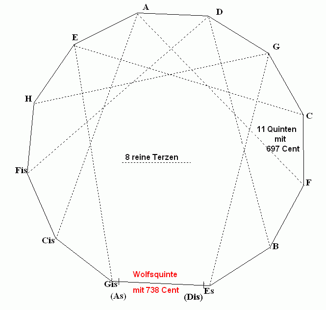 The circle of fifths in quarter-comma meantone. 11 fifths at 697 cents 8 pure thirds Wolf fifth with 738 cents